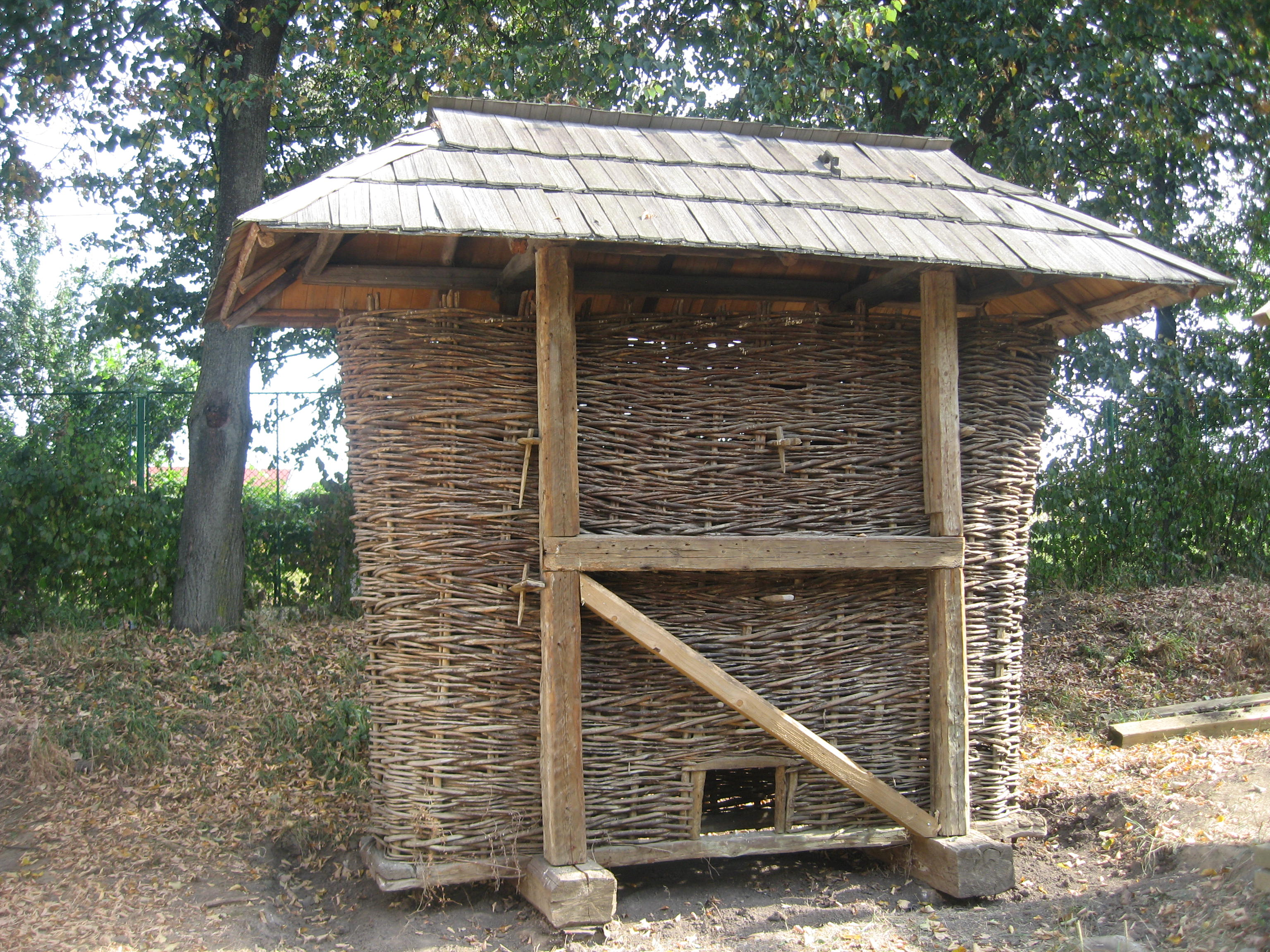 Bukovina Village Museum - Traditional corn shelter from Sfântu Ilie.